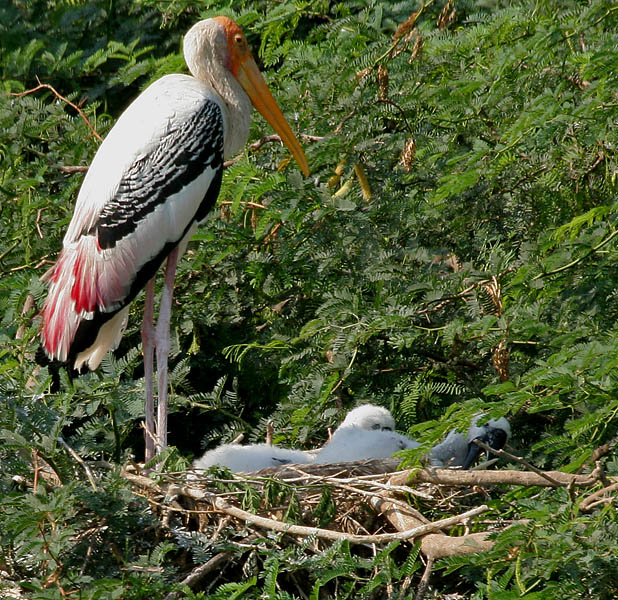 Painted Stork Mycteria leucocephala at Uppalapadu, Andhra Pradesh, India.